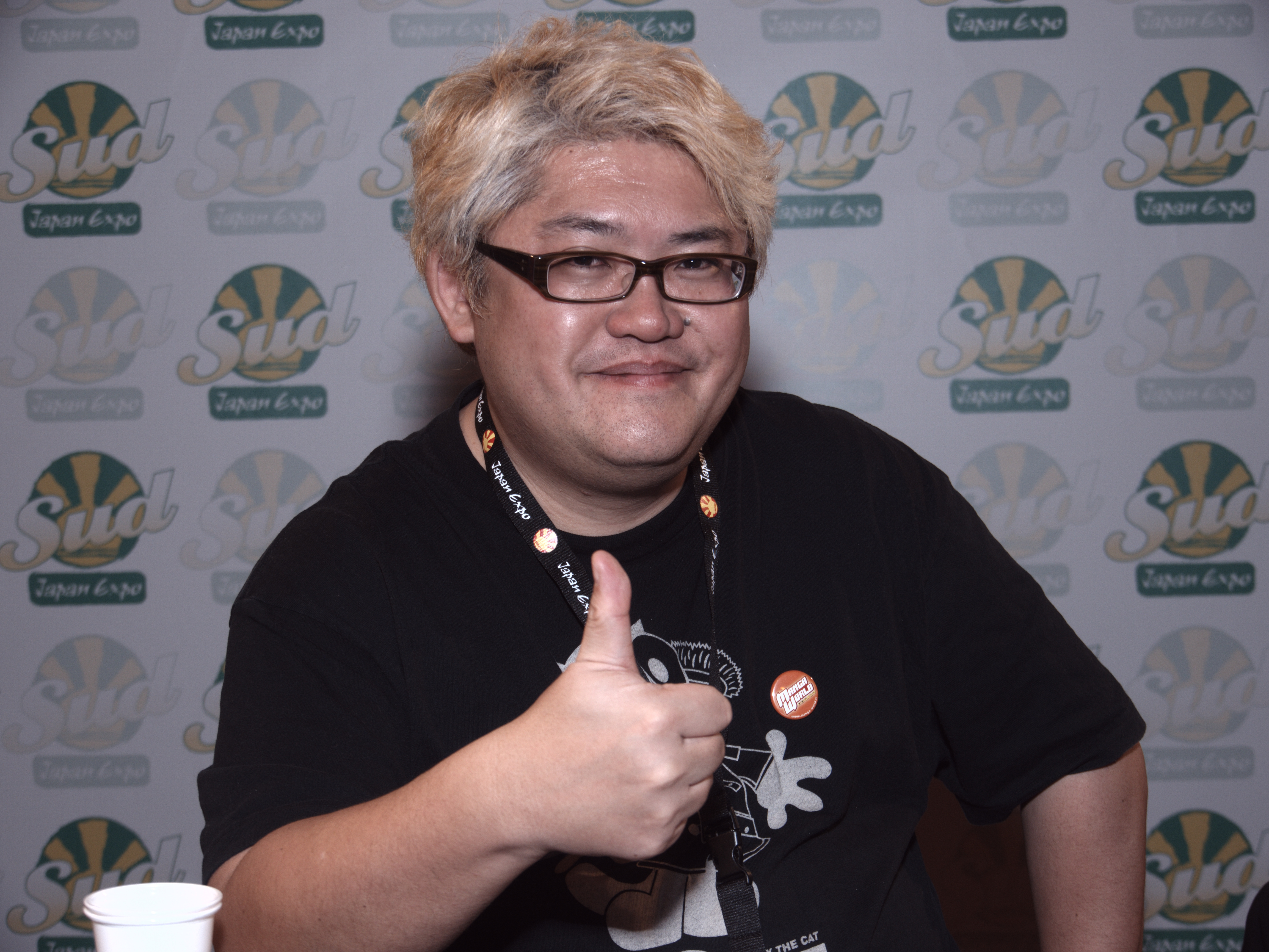 Japan Expo Festival, 3rd edition, 2011